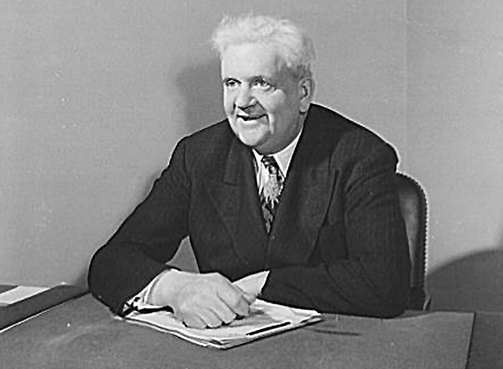 Roger Lapham, Mayor of San Francisco